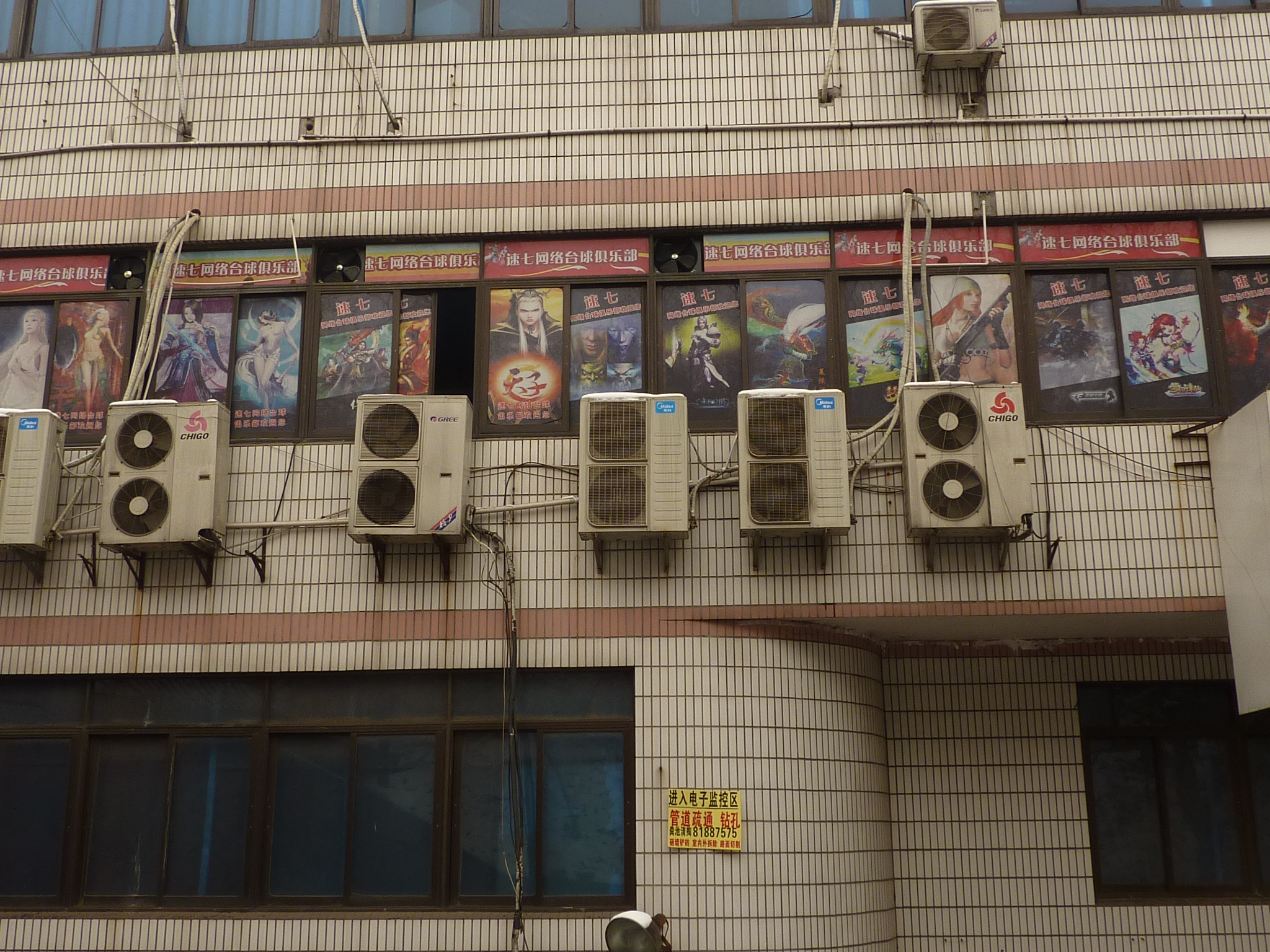 A building with the sign for internet cafe / billiards / chess boards in Wuhan, near Jiefang Lu and Wuluo Lu